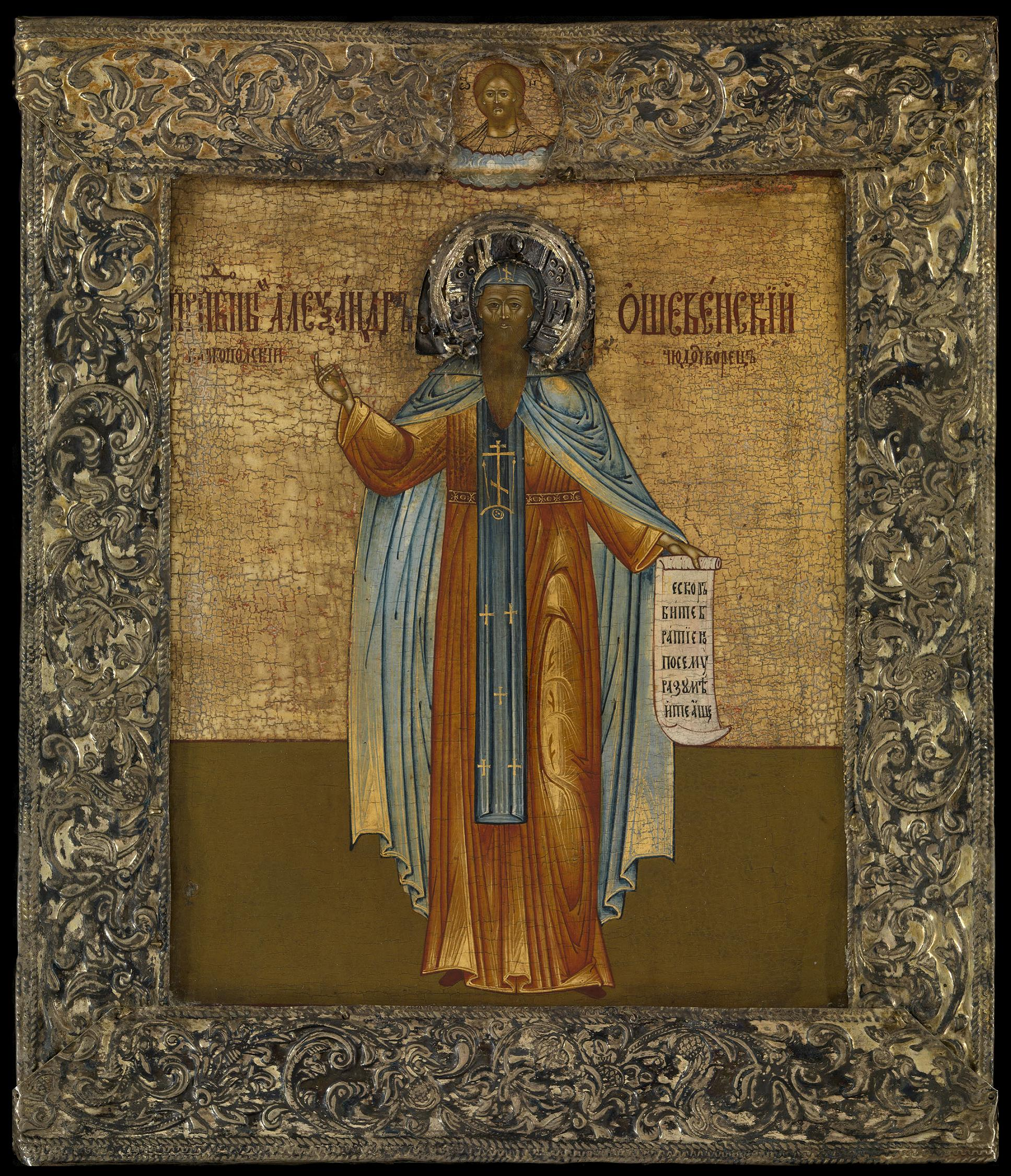 ST ALEXANDER OSHEVENSKY IN A SILVER-GILT BASMA POMORYE, CIRCA 1800. 31.5 by 27 cm.